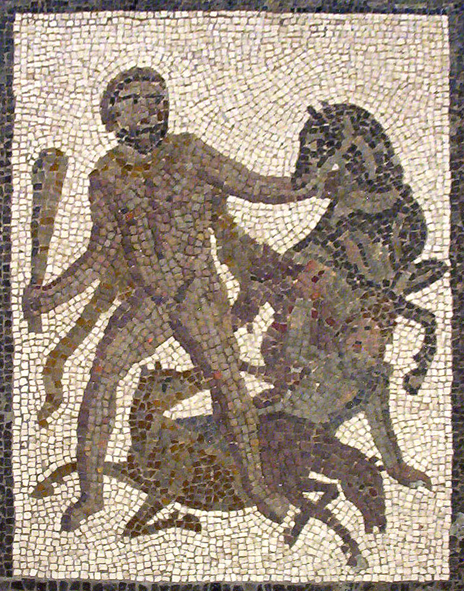 Hercules and the Mares of Diomedes. Detail of The Twelve Labours Roman mosaic from Llíria (Valencia, Spain).